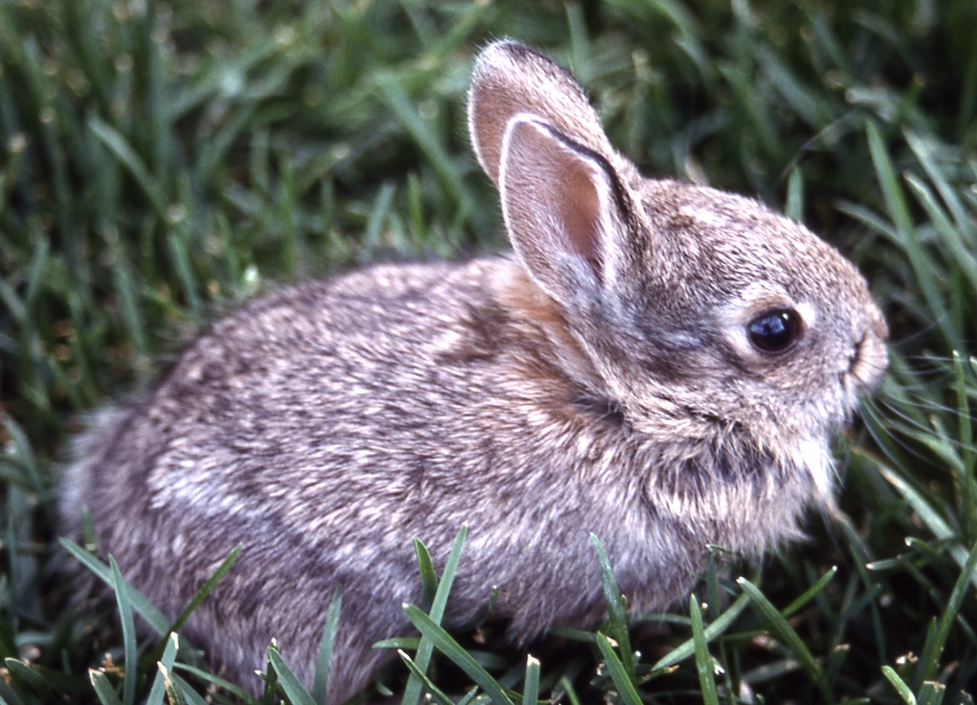 Different flopsy bunny! Link: [1]